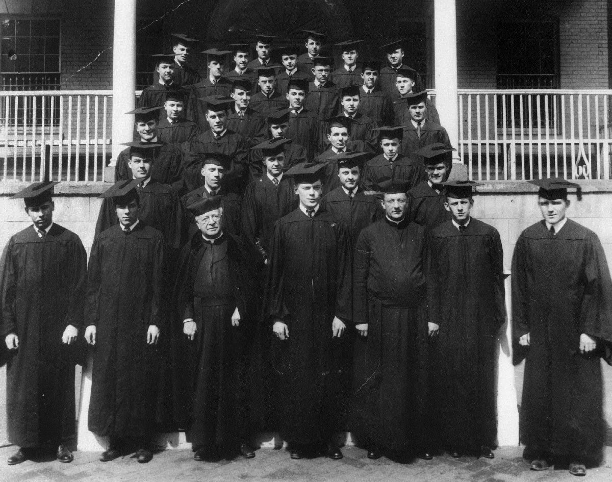 The Georgetown College of Georgetown University class of 1920 in cap and gown on the steps of Old North Hall in Washington, D.C.